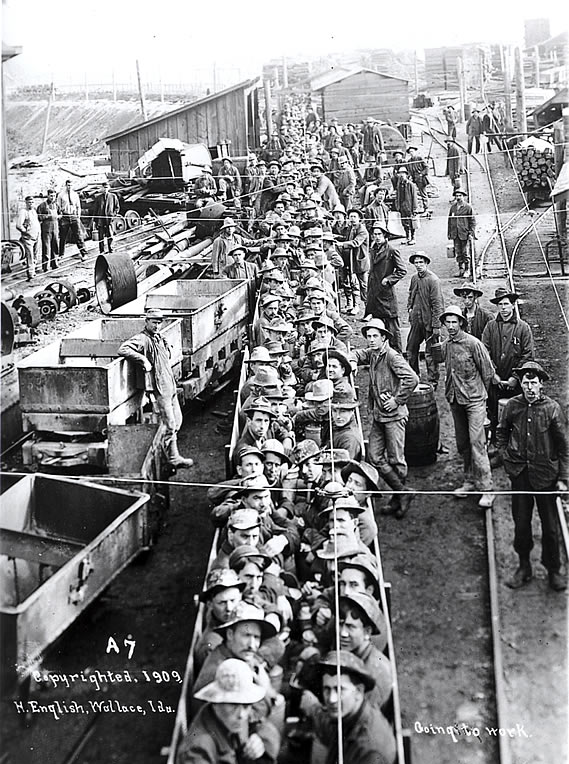 Going to Work - miners at Wallace Idaho 1909